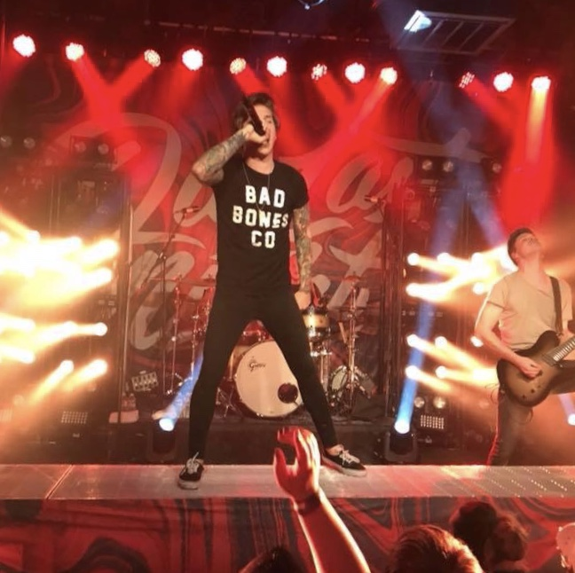 This is a photo I personally took at this concert.